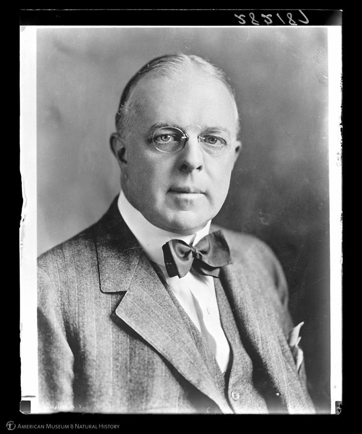 Charles Hayden, donor of the two planetaria, American Museum of Natural History, New York